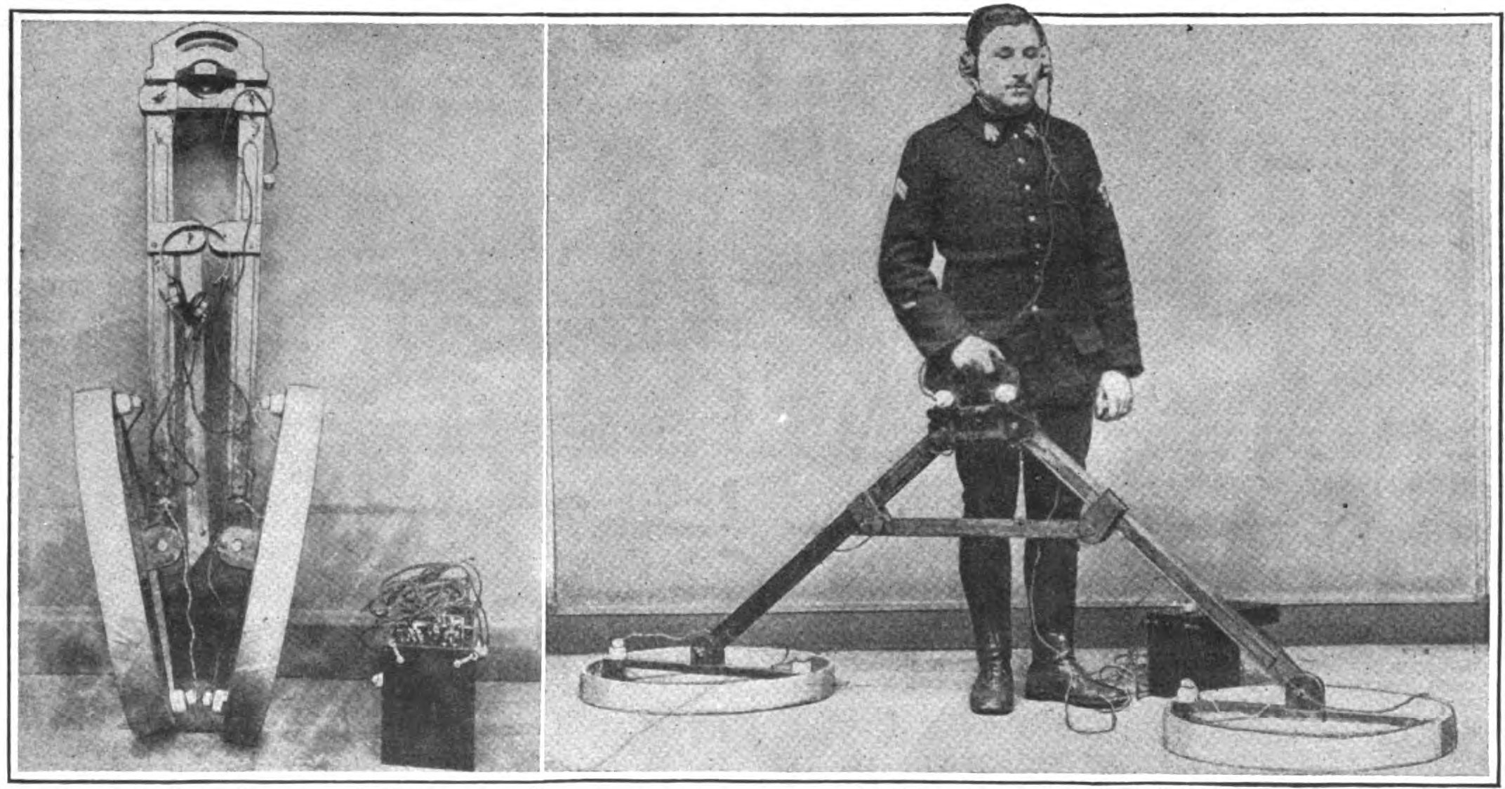 An early experimental metal detector used for finding unexploded bombs in post World War 1 France. Named the "Alpha", it was designed by M. Guitton, professor of physics at Nancy. It used the principle of the "Hughes inductive balance" circuit invented by British scientist David Hughes in 1879. Each of the two separate coils mounted on the frame is a double coil or transformer, with the primary winding attached to a source of audio alternating current. The secondaries are wired in series with opposing phase to the operator's earphones. As long as there is no metal in range of the magnetic fields of the coils, the currents induced in the two secondary coils balance and cancel each other out, and no tone is heard. But if a piece of metal is in range, the eddy currents in it change the phase of the voltage induced in one of the secondaries, unbalancing the circuit, and a tone is heard. In use, the operator carried the frame around, sweeping the suspected area with the coils near the ground. An assistant followed, carrying the heavy control and battery box (box on ground). Both coils were sensitive, so when a signal was heard the operator had to determine by additional sweeps which coil the metal was near. The bulky instrument could fold up (left) for travelling. The device wasn't very sensitive compared to modern metal detectors; it could detect a 10 kg mass at a depth of 40 or 50 cm, and a smaller mass at a depth of 20 to 30 cm.